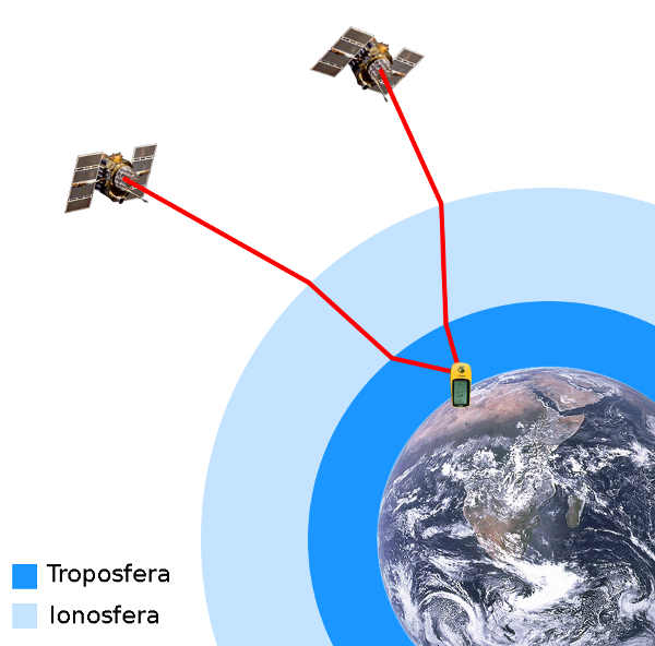 Effect of the atmosphere in the GPS signal propagation.